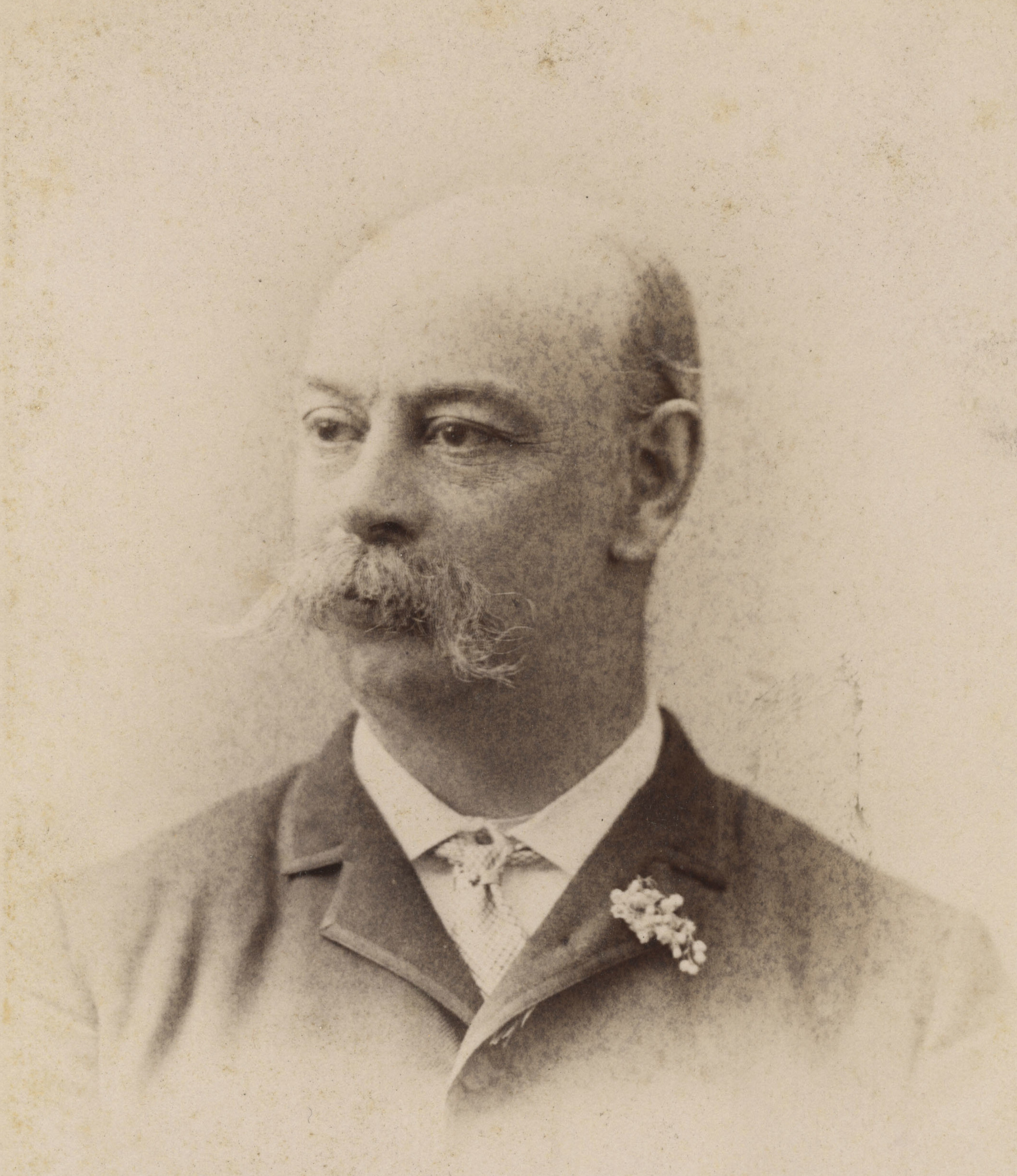 American politician, author and translator George Makepeace Towle (1841-1893)